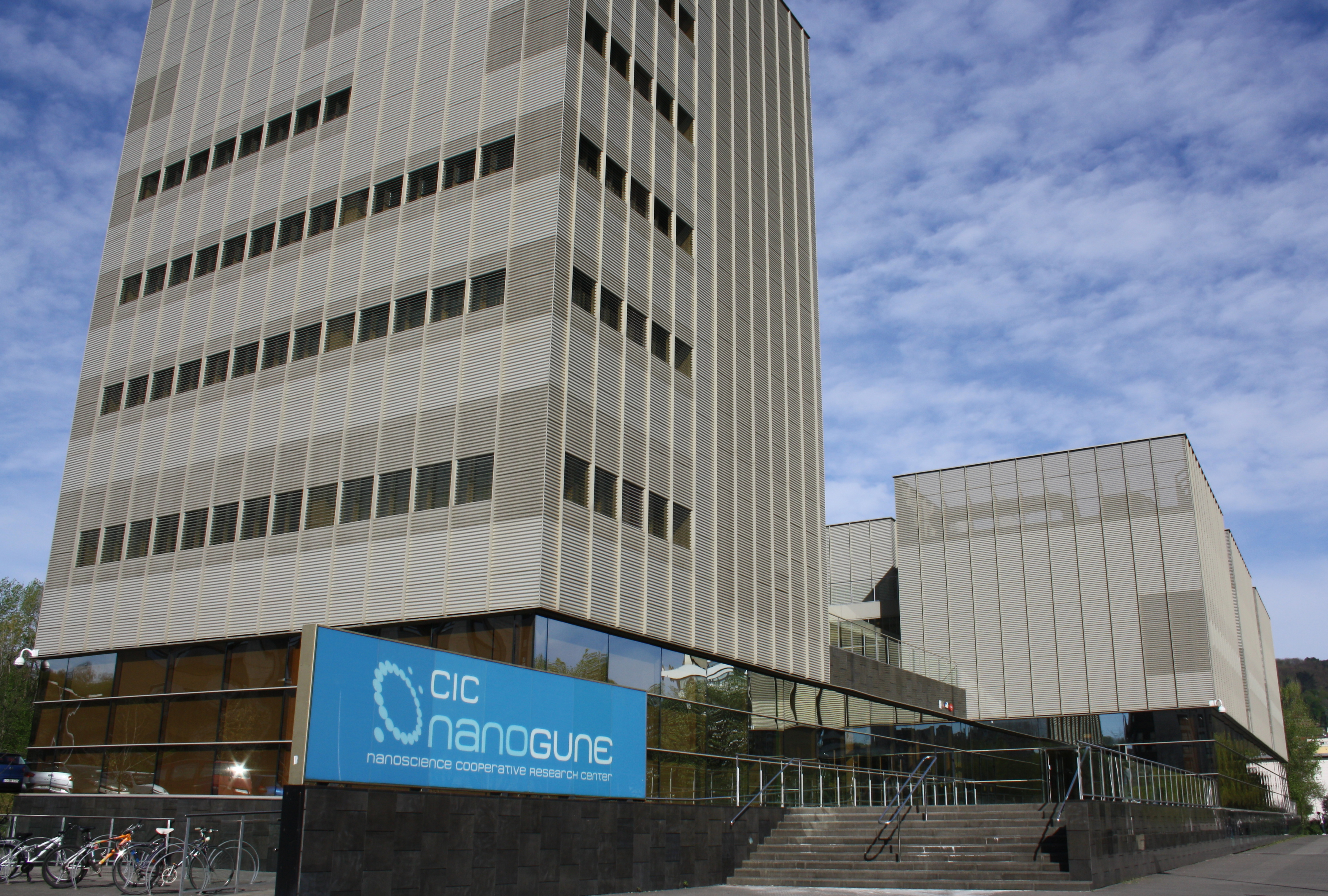 nanoGUNE building